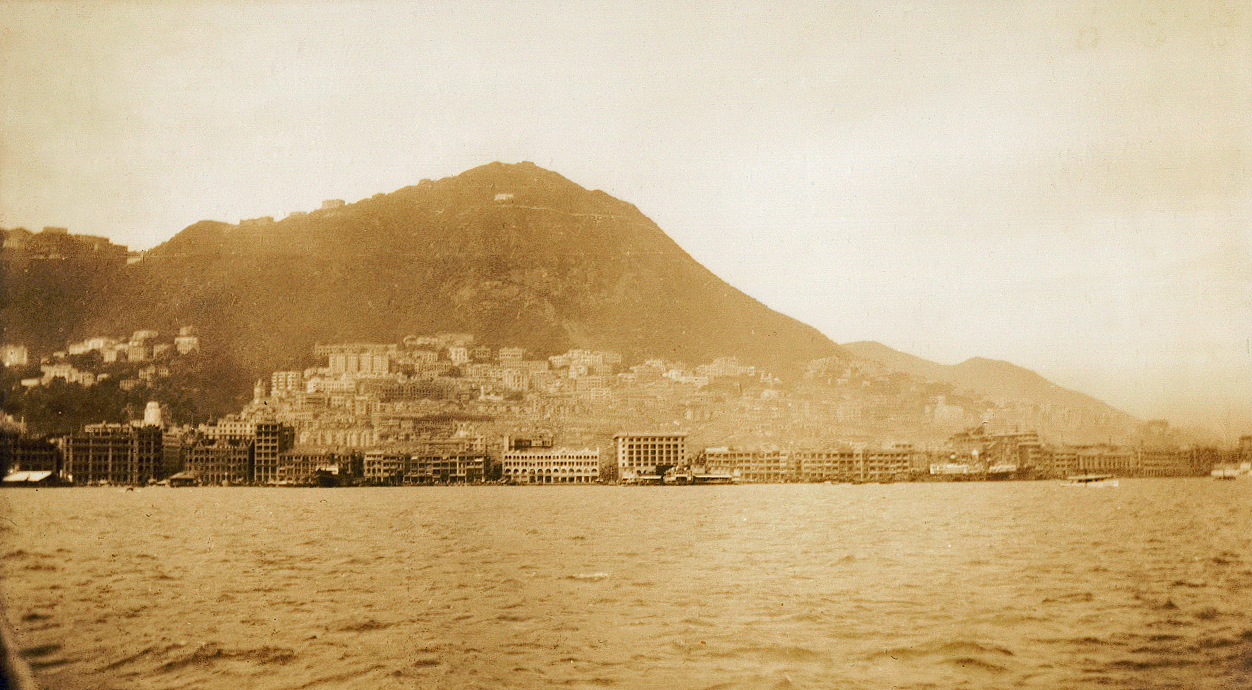 Hong Kong in the 1930s